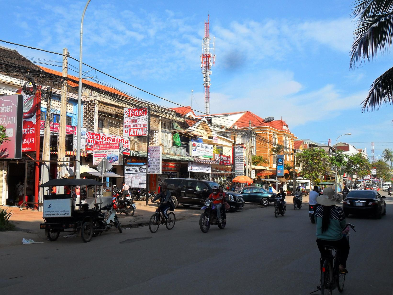 A part of Sivutha Blvd, Siem Reap, Cambodia